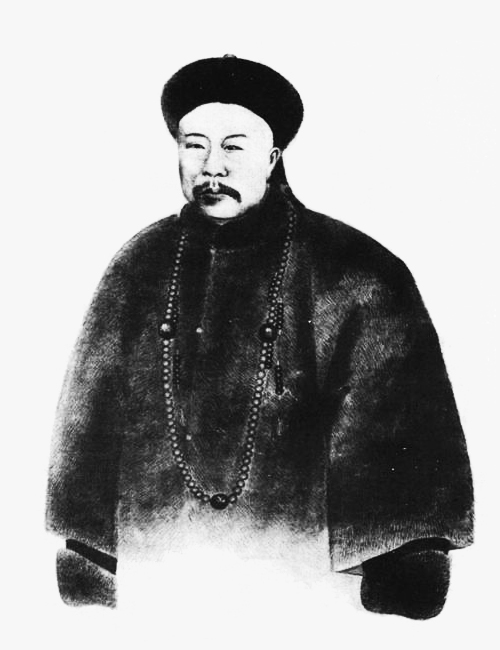 Xu Yongyi